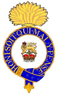 Cap badge of the King's Own Fusiliers